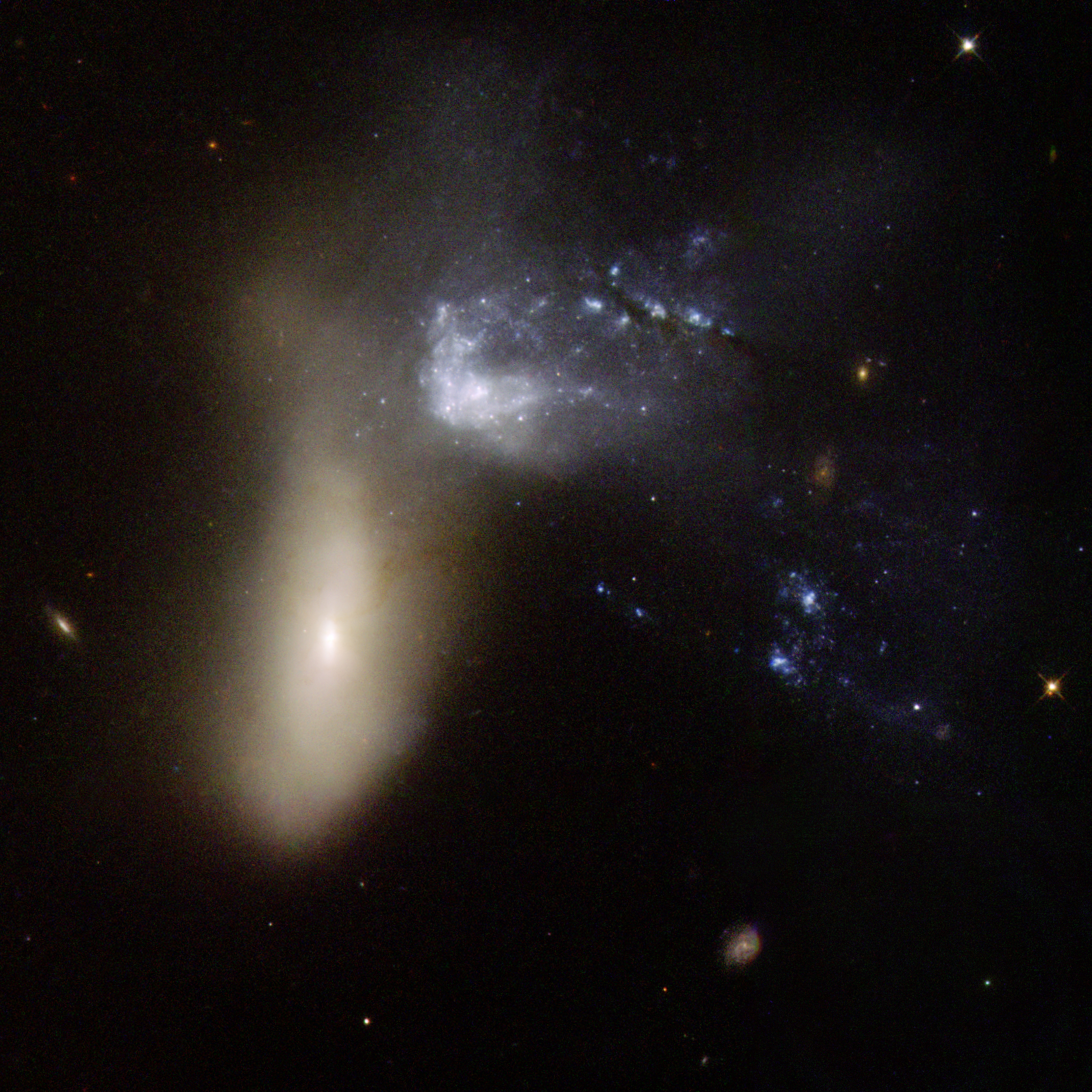 NGC 454 is galaxy pair comprising a large red elliptical galaxy and an irregular gas-rich blue galaxy. The system is in the early stages of an interaction that has severely distorted both components. The three bright blue knots of very young stars to the left of the two main components are probably part of the irregular blue galaxy. Although the dust lanes that stretch all the way to the center of the elliptical galaxy suggest that gas has penetrated that far, no signs of star formation or nuclear activity are visible. The pair is approximately 164 million light-years away. This image is part of a large collection of 59 images of merging galaxies taken by the Hubble Space Telescope and released on the occasion of its 18th anniversary on 24th April 2008. About the objectObject nameNGC 454Object descriptionInteracting GalaxiesPosition (J2000)01 14 26.10 -55 23 40.00ConstellationPhoenixDistance150 million light-years (50 million parsecs)About the dataData descriptionThe Hubble image was created using HST data from proposal 7129: M. Stiavelli (STScI)InstrumentWFPC2Exposure date(s)March 6, 1997Exposure time31 minutesFiltersF450W (B), F606W (V), and F814W (I)